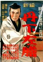 Japanese movie poster for 1935 Japanese film The Million Ryo Pot (Tange Sazen yowa: Hyakuman ryo no tsubo)